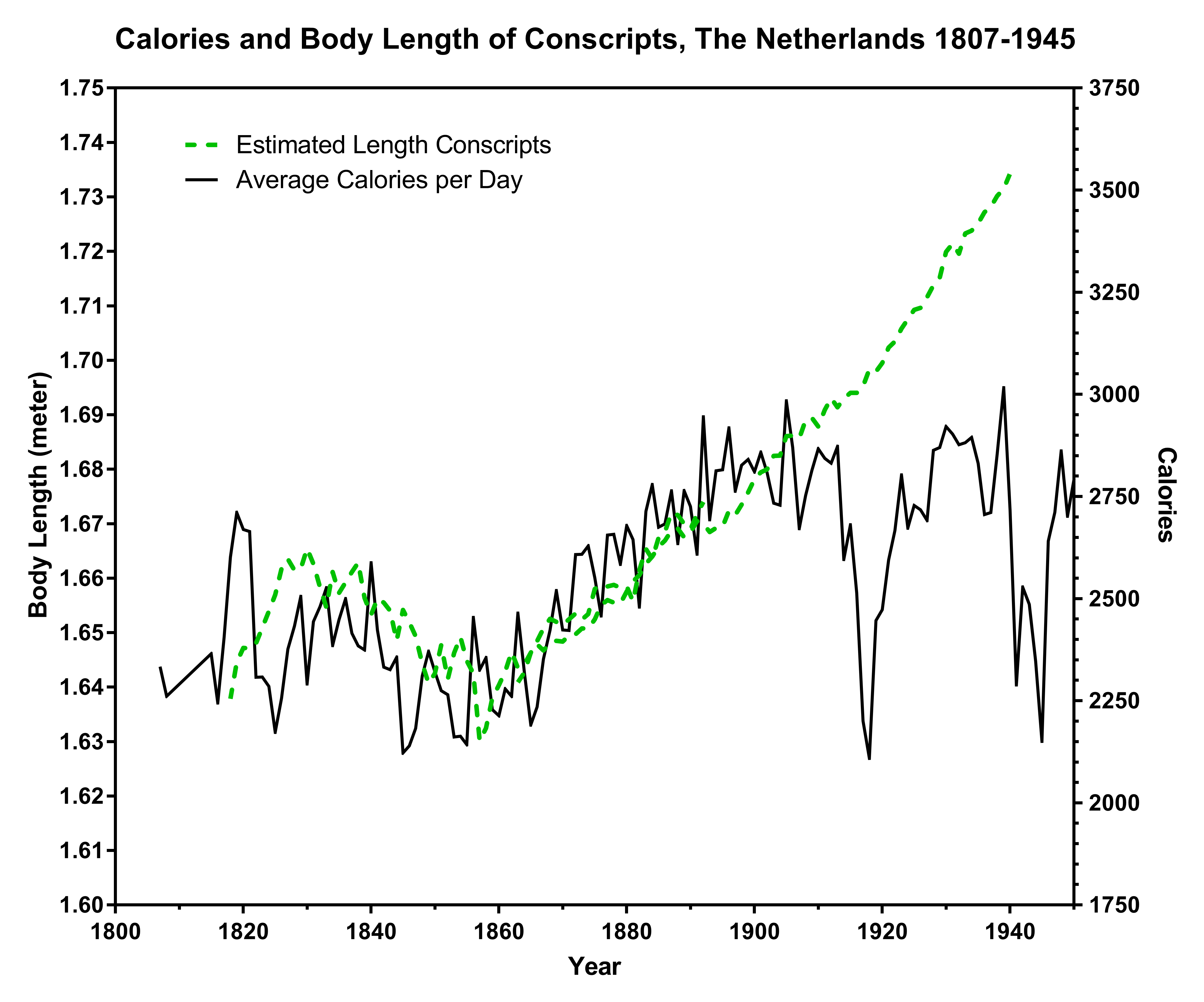 Average calories intake and average length of Ducth consricpts 1807-1945